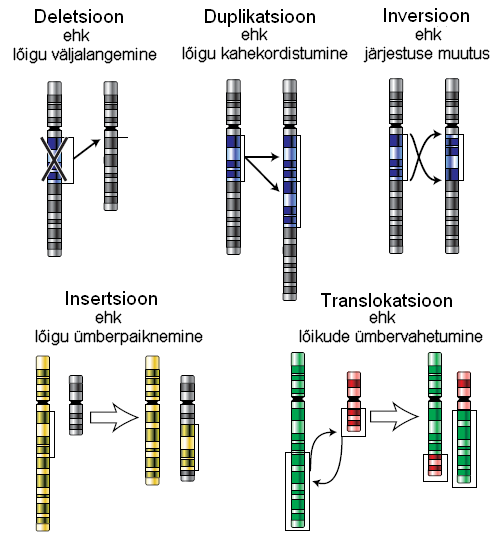 Illustrations of five types of chromosomal mutations.